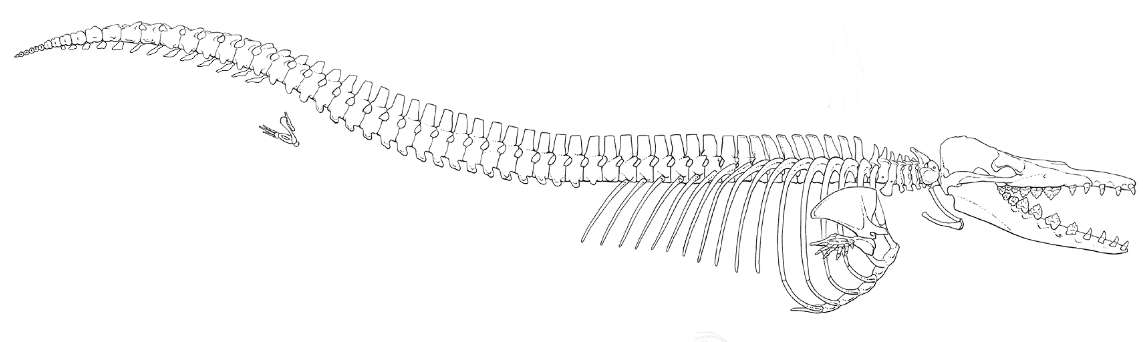 Lateral view of Dorudon atrox